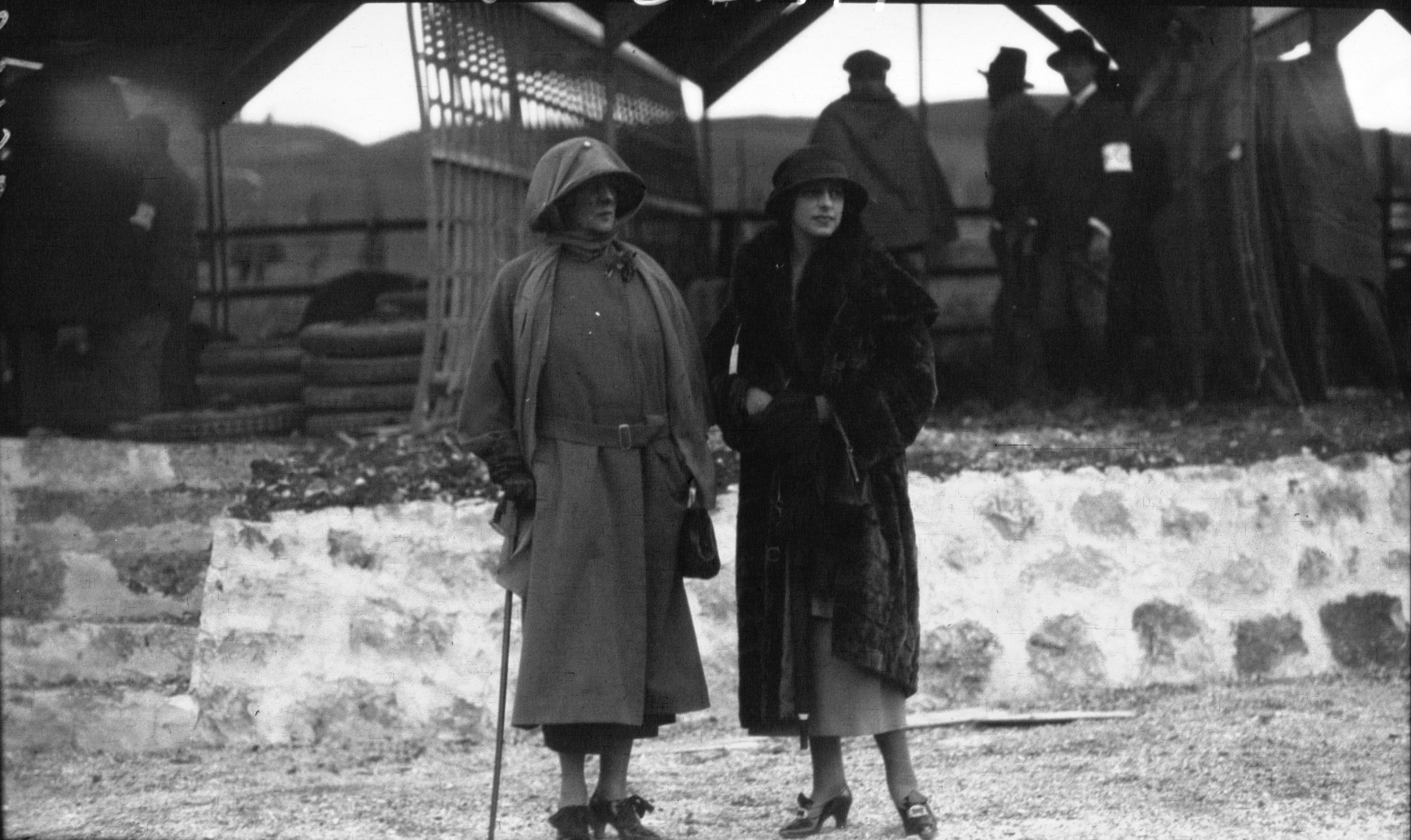 Ms. Franca Florio and Ms. Darbel at the 1922 Targa Florio.